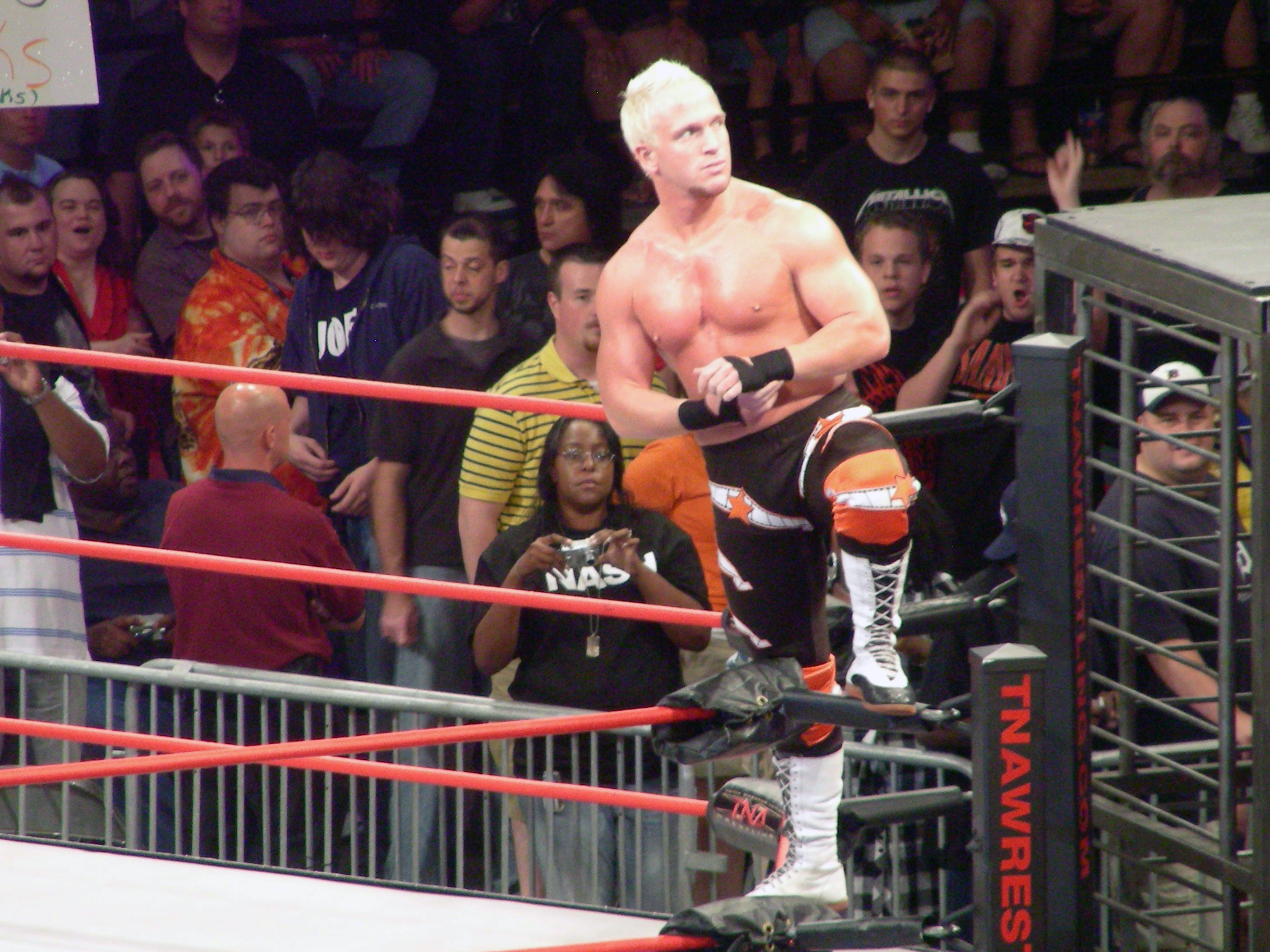 Young and Rhino gonna kick off the pre-show